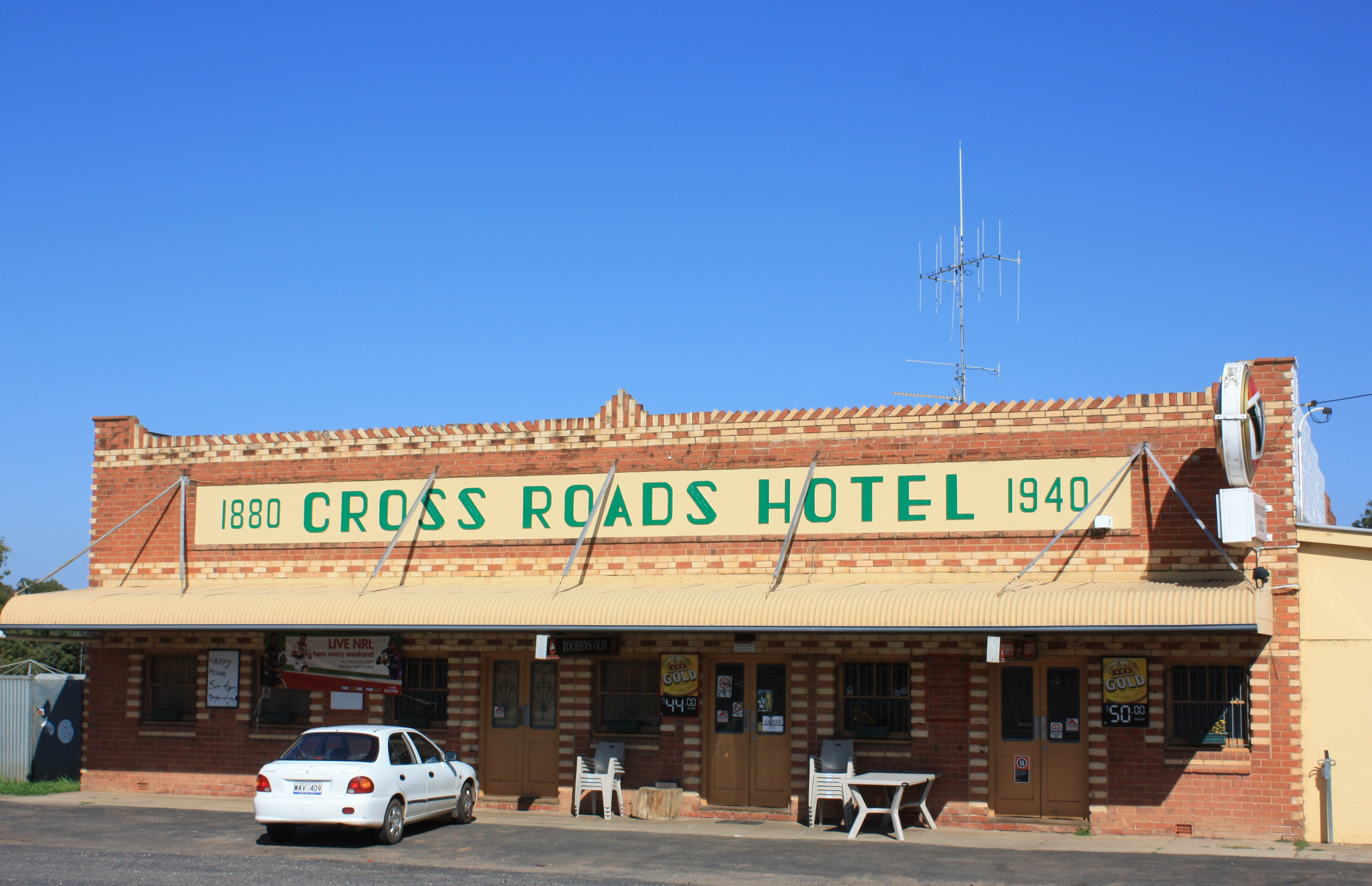 Newell Highway, Tomingley. Hotel established in 1880 and rebuilt in 1940.